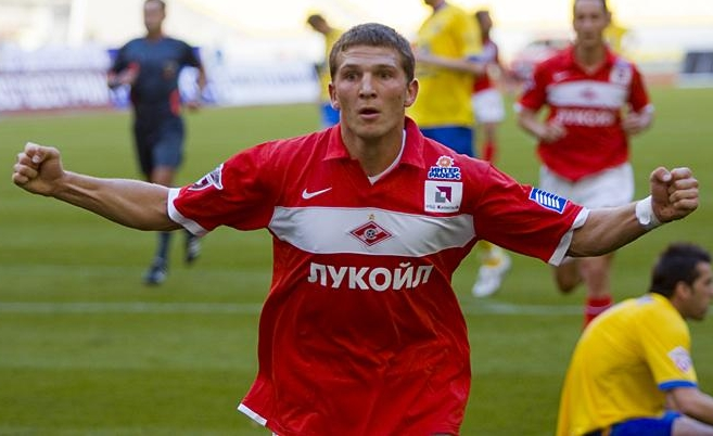 Aleksandr Prudnikov in action for FC Spartak Moscow